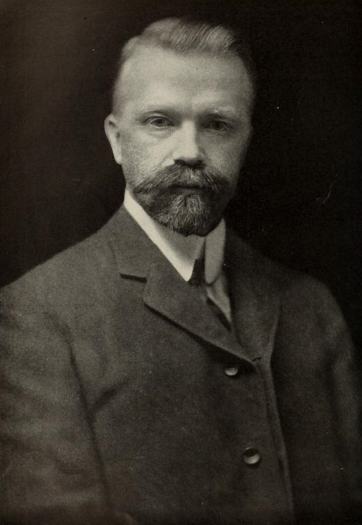 Picture of Luther Gulick